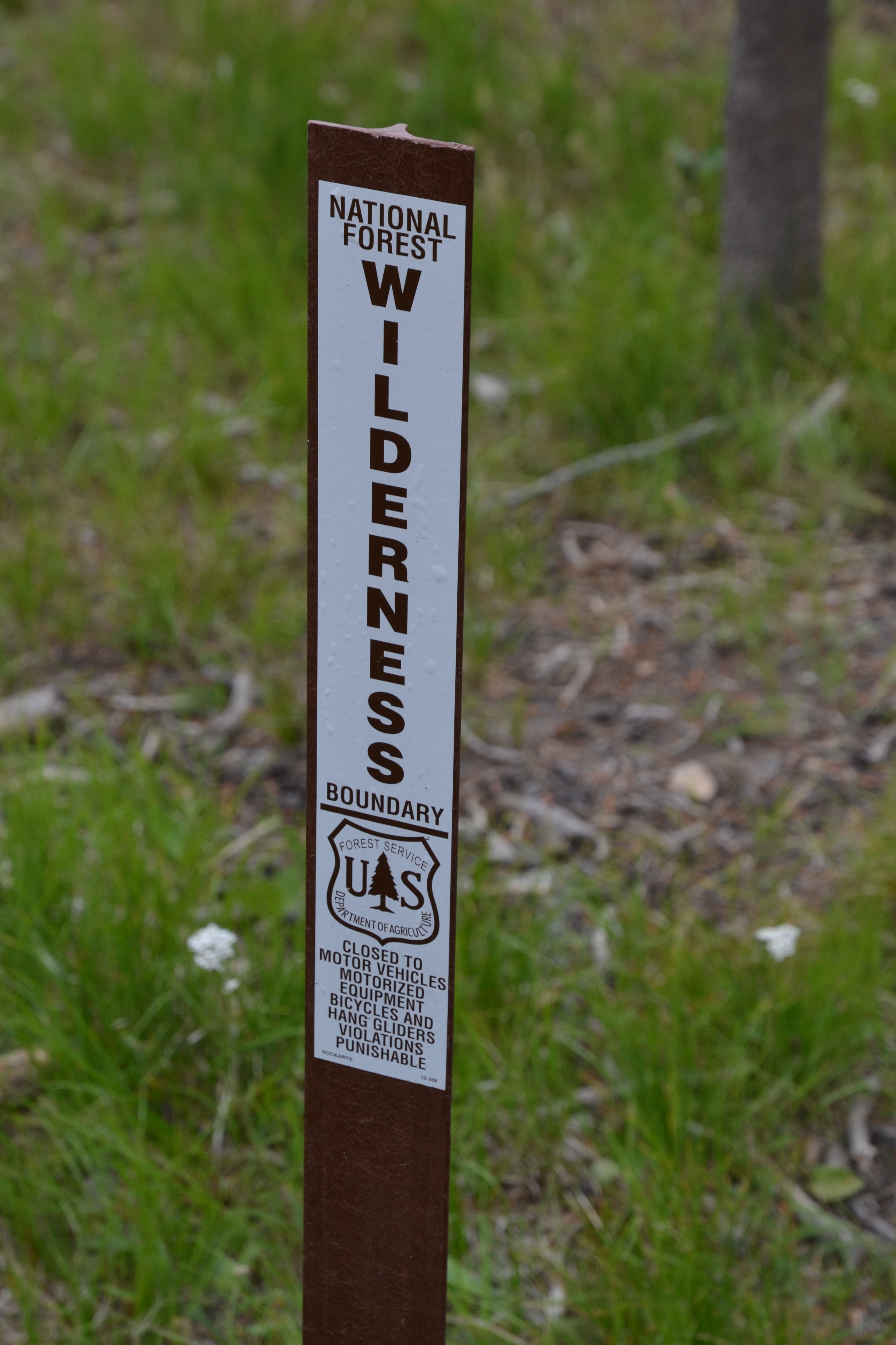 National Forest Wilderness Boundary Marker at the Sawtooth Wilderness, Idaho, USA.